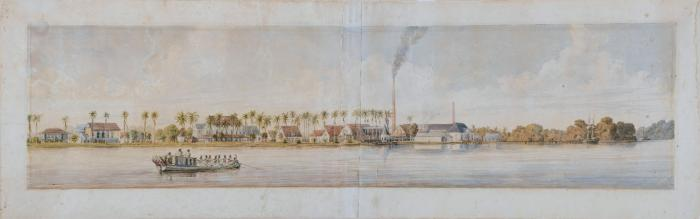 Sugar plantation 'Catharina Sophia' by the Saramacca River